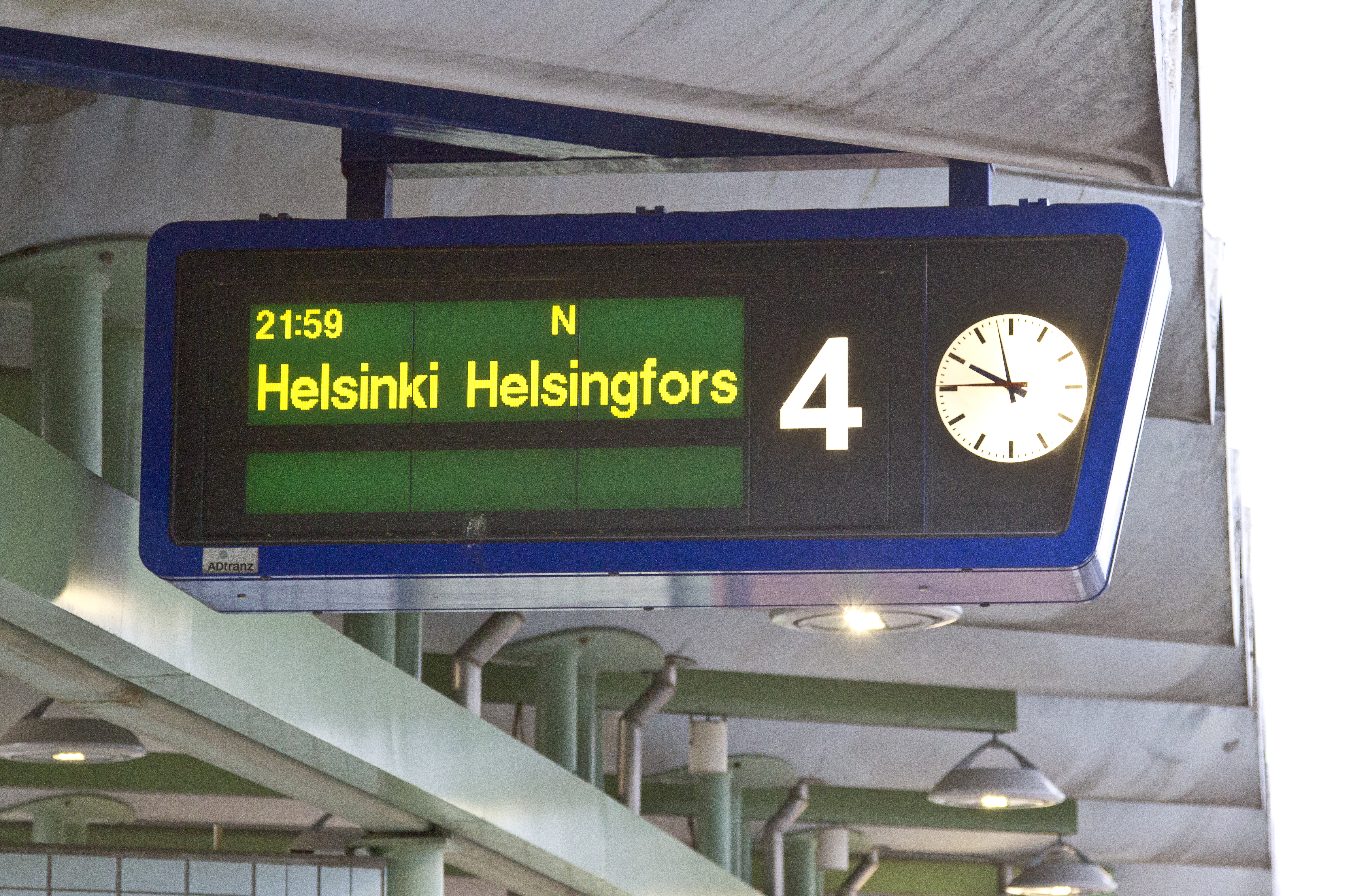 Platform screen in Pukinmäki railway station